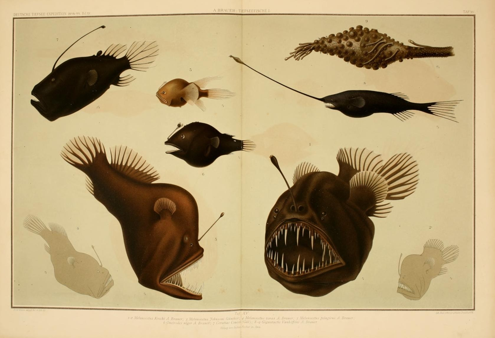 TIEFSEEFISCHE I ■ ■